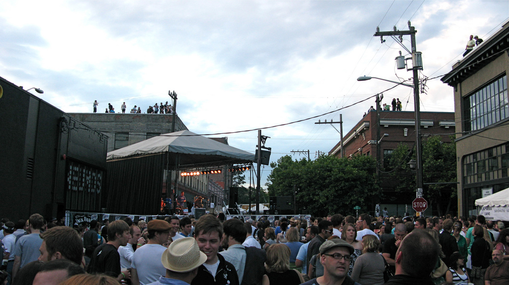 Capitol Hill Block Party 2008